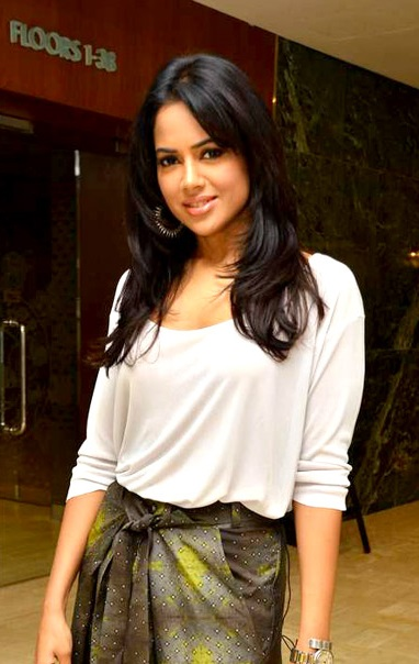 Sameera Reddy at IIFA 2012